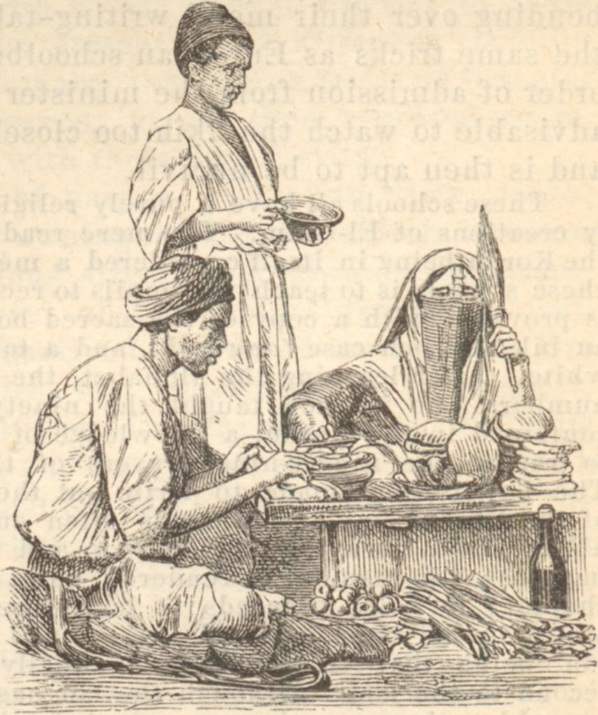 Two men and a woman at a low table covered with food which they appear to be making. Line drawing.